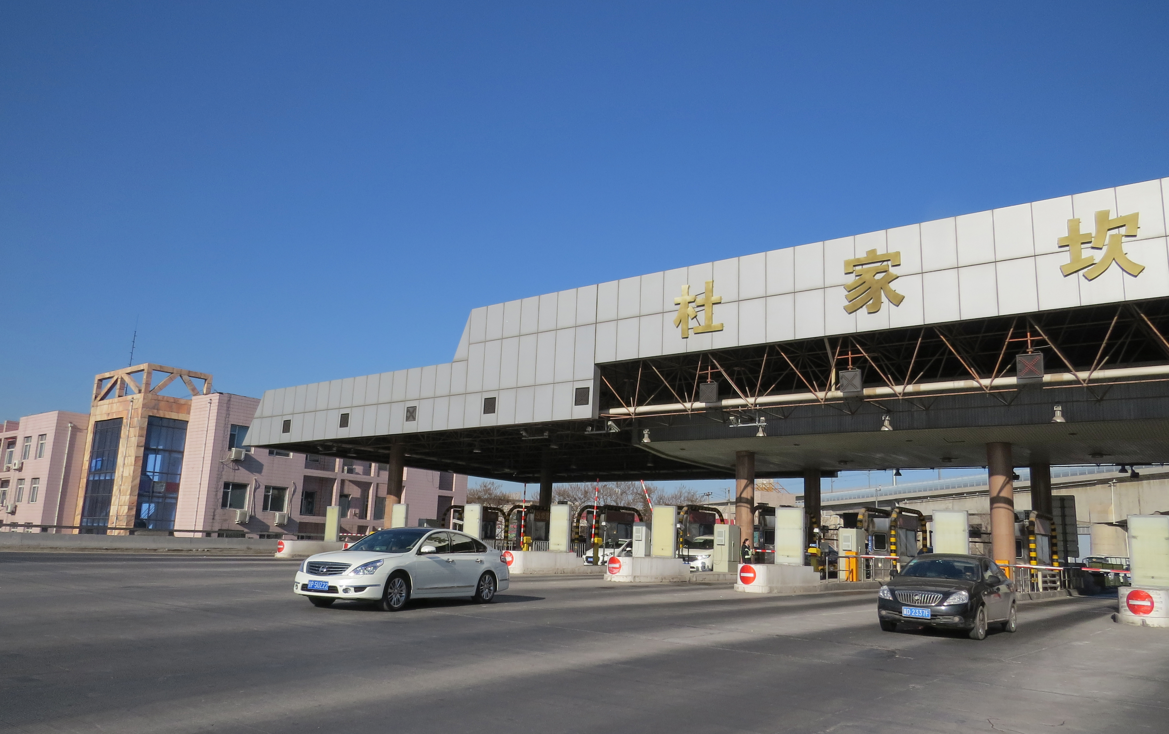 Not that congested.